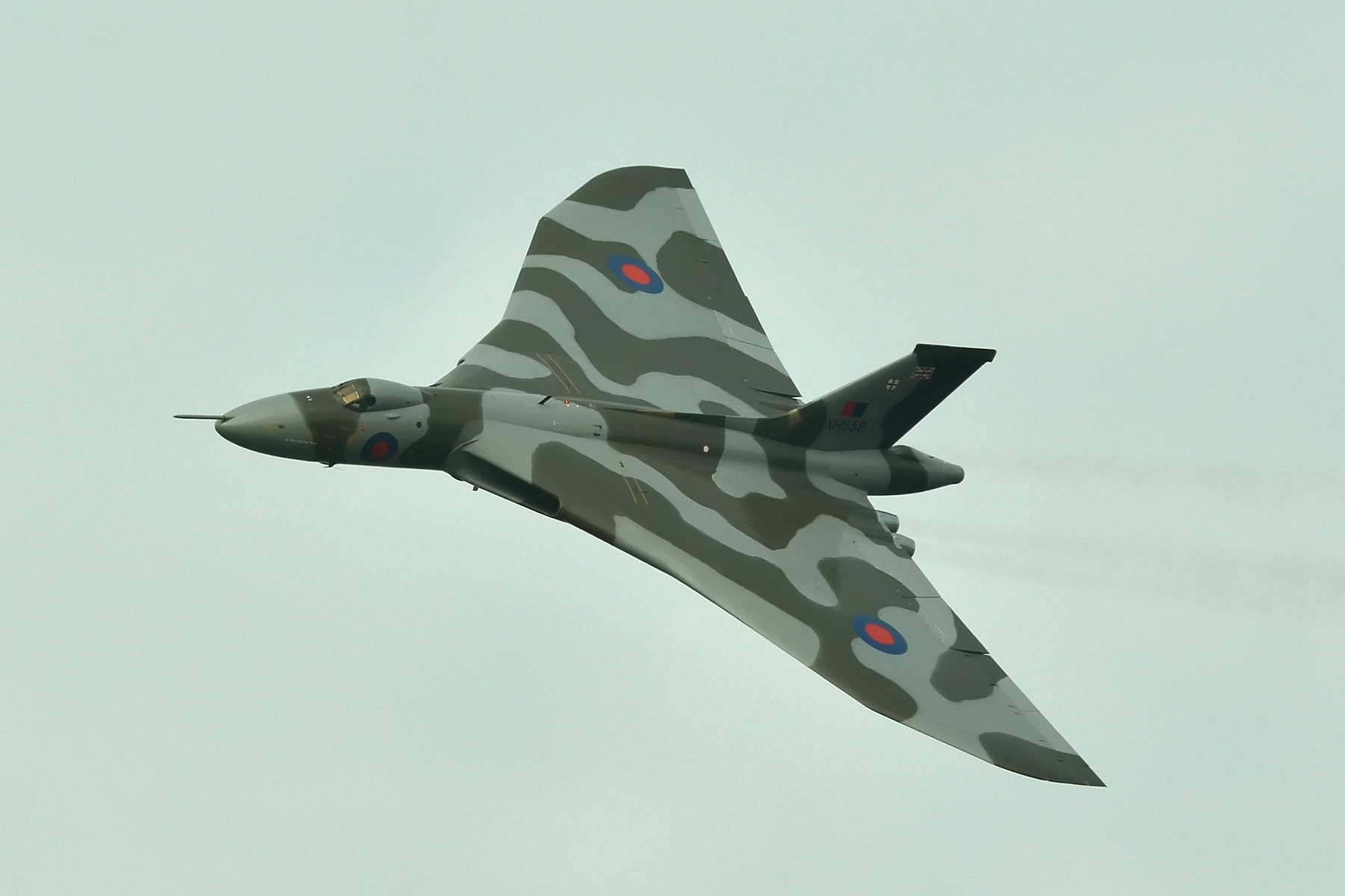 XH558 (G-VLCN) Avro Vulcan - Last Flight over Farnborough 11th October 2015